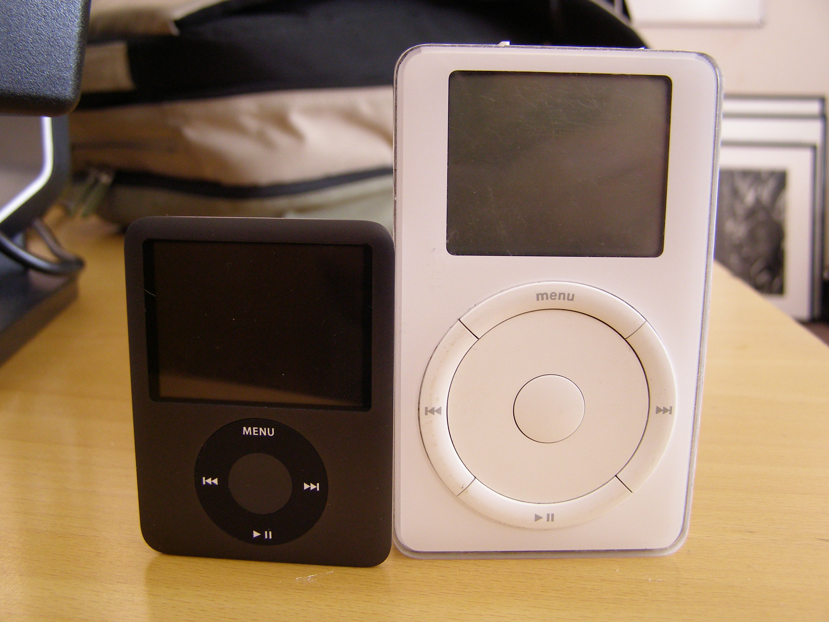 Black iPod nano 3G and the original 5GB iPod.